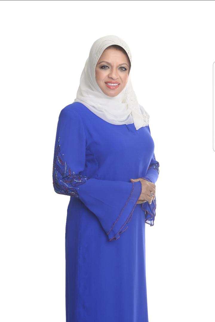 The image of Tan Sri Shahrizat Abdul Jalil